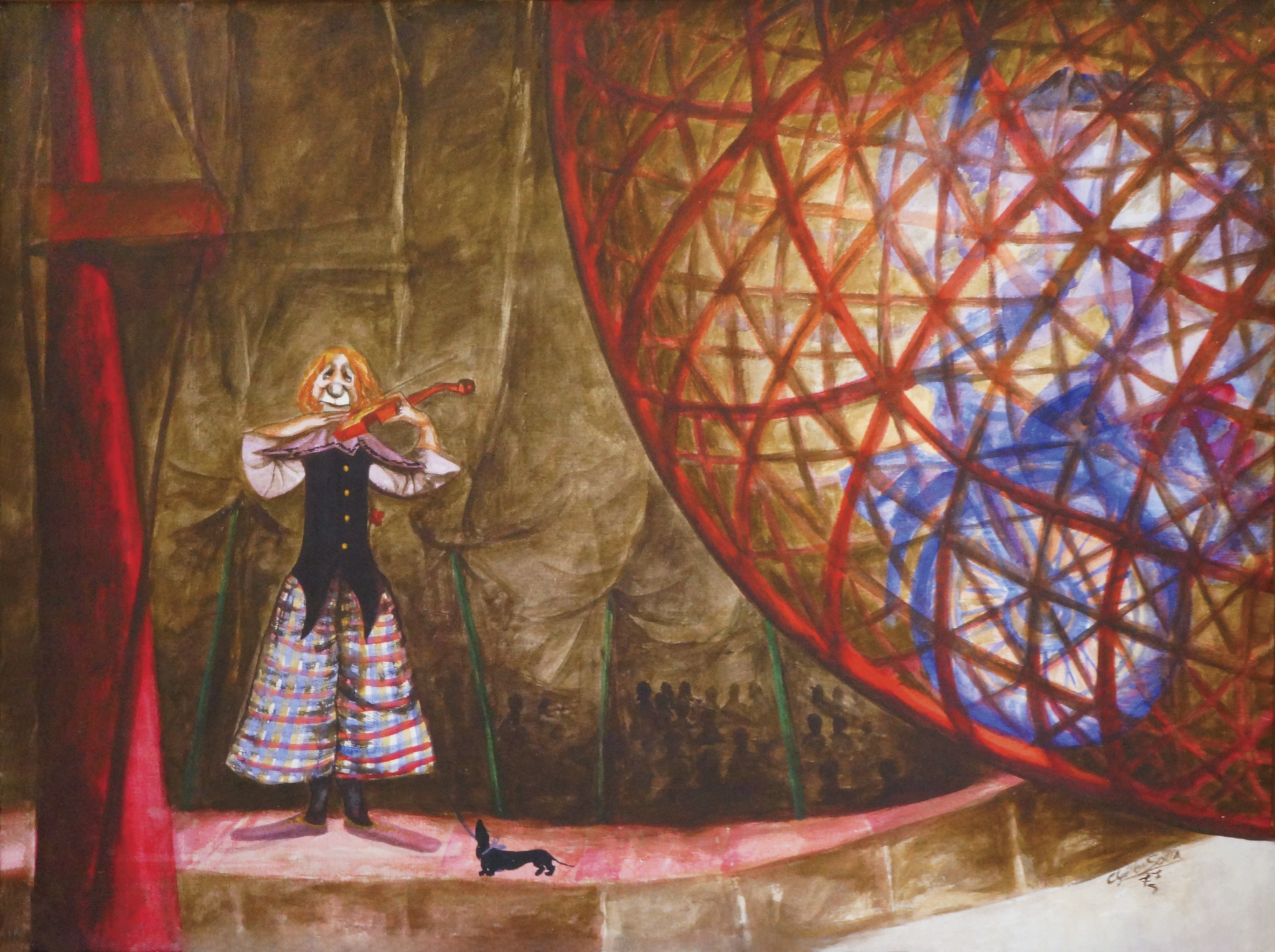 Oil on canvas.